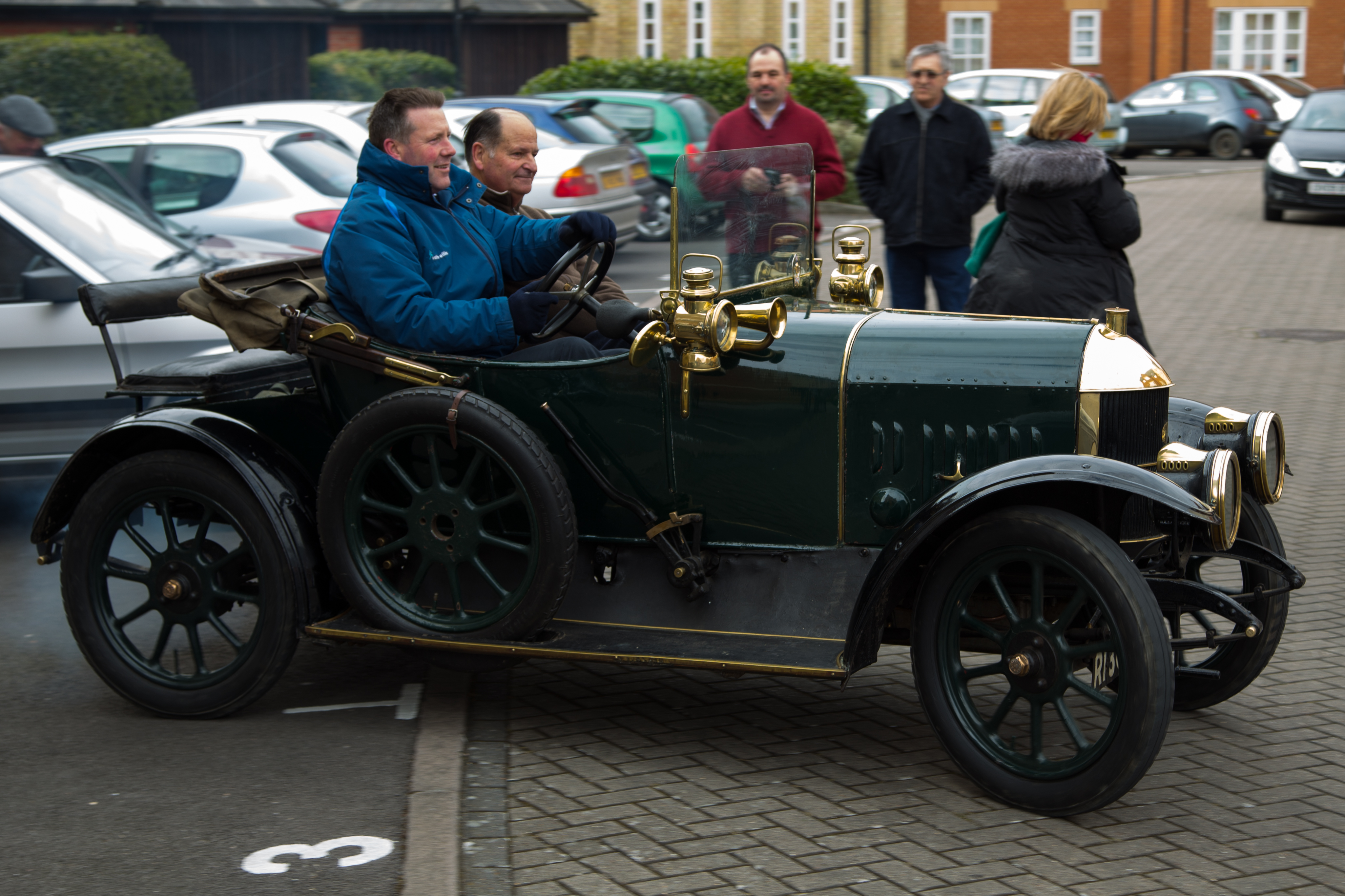 Morris Oxford de luxe two-seater 1913 (DVLA) first registered 1 January 1914, 1050cc